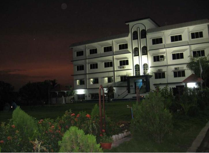 NSEC College